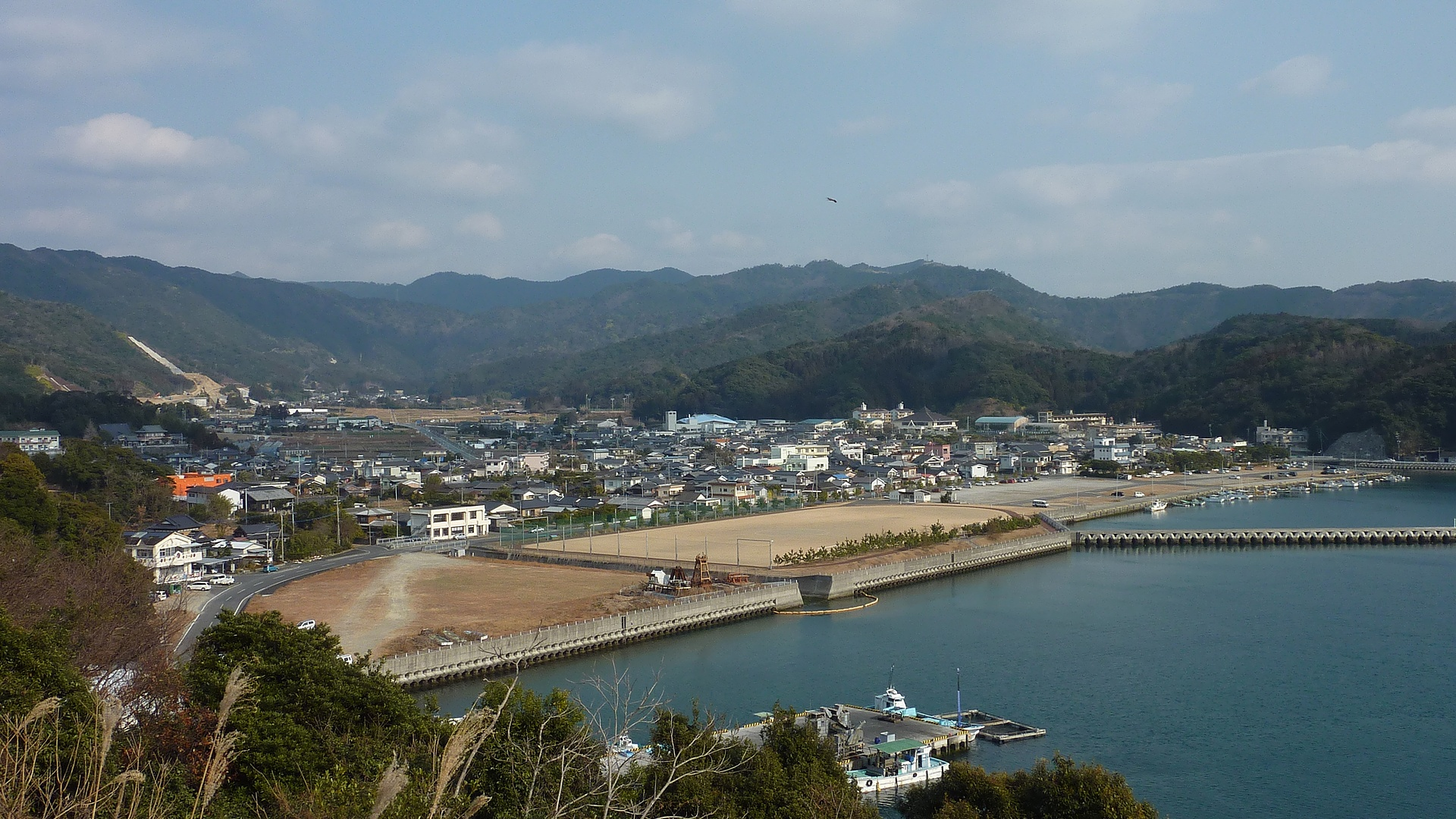 Furue, Kitaura-machi, Nobeoka City, Miyazaki Prefecture, Japan